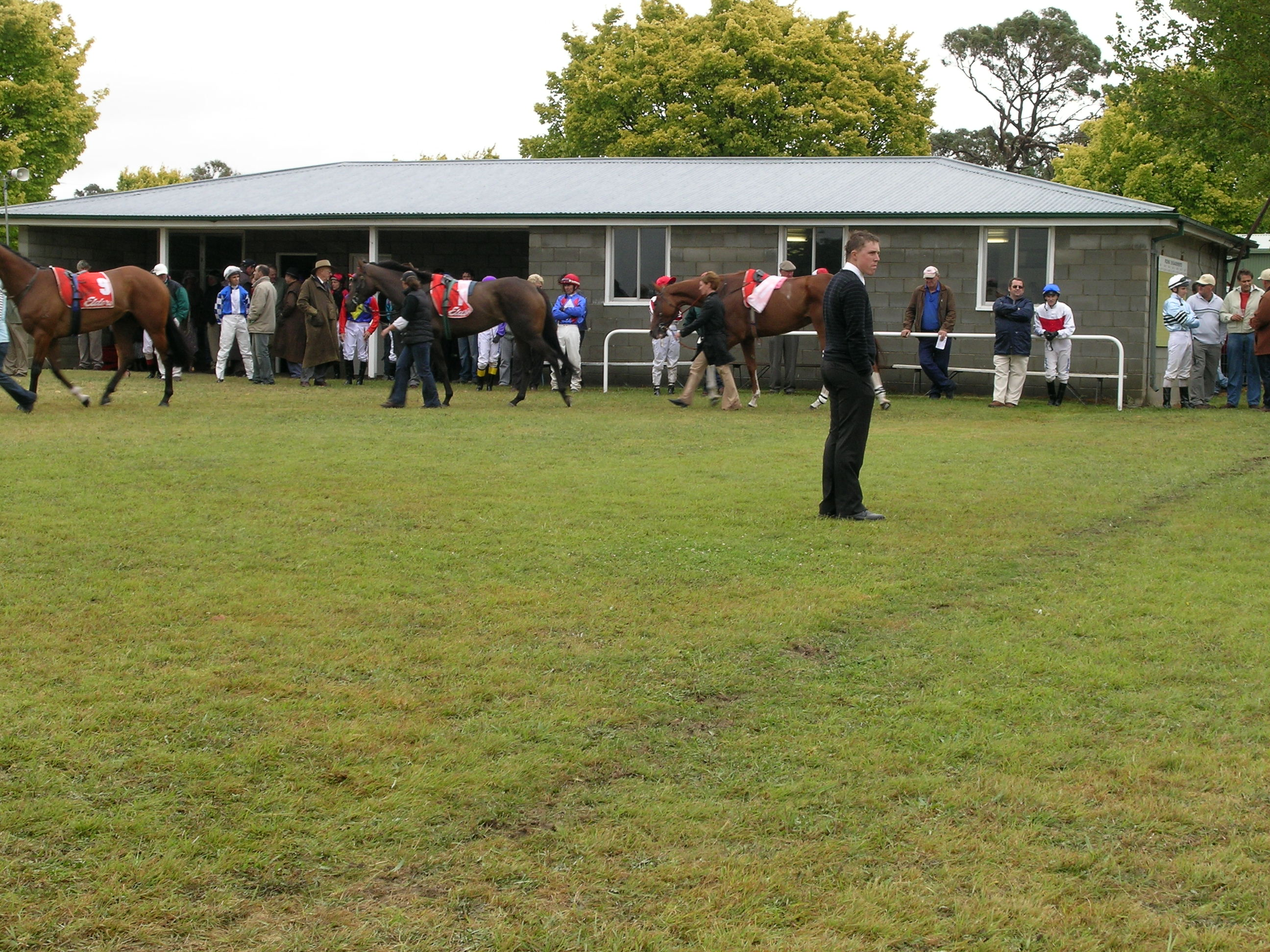 The mounting yard, Walcha, NSW